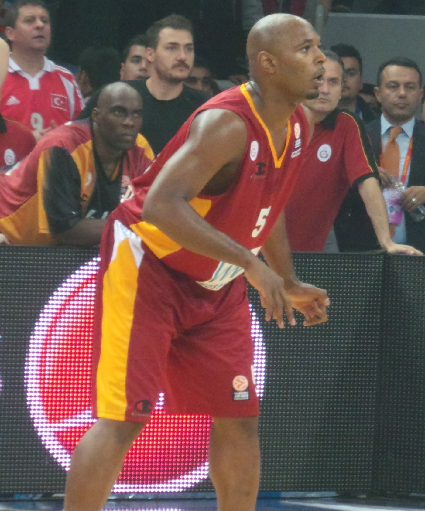 Gordon'13